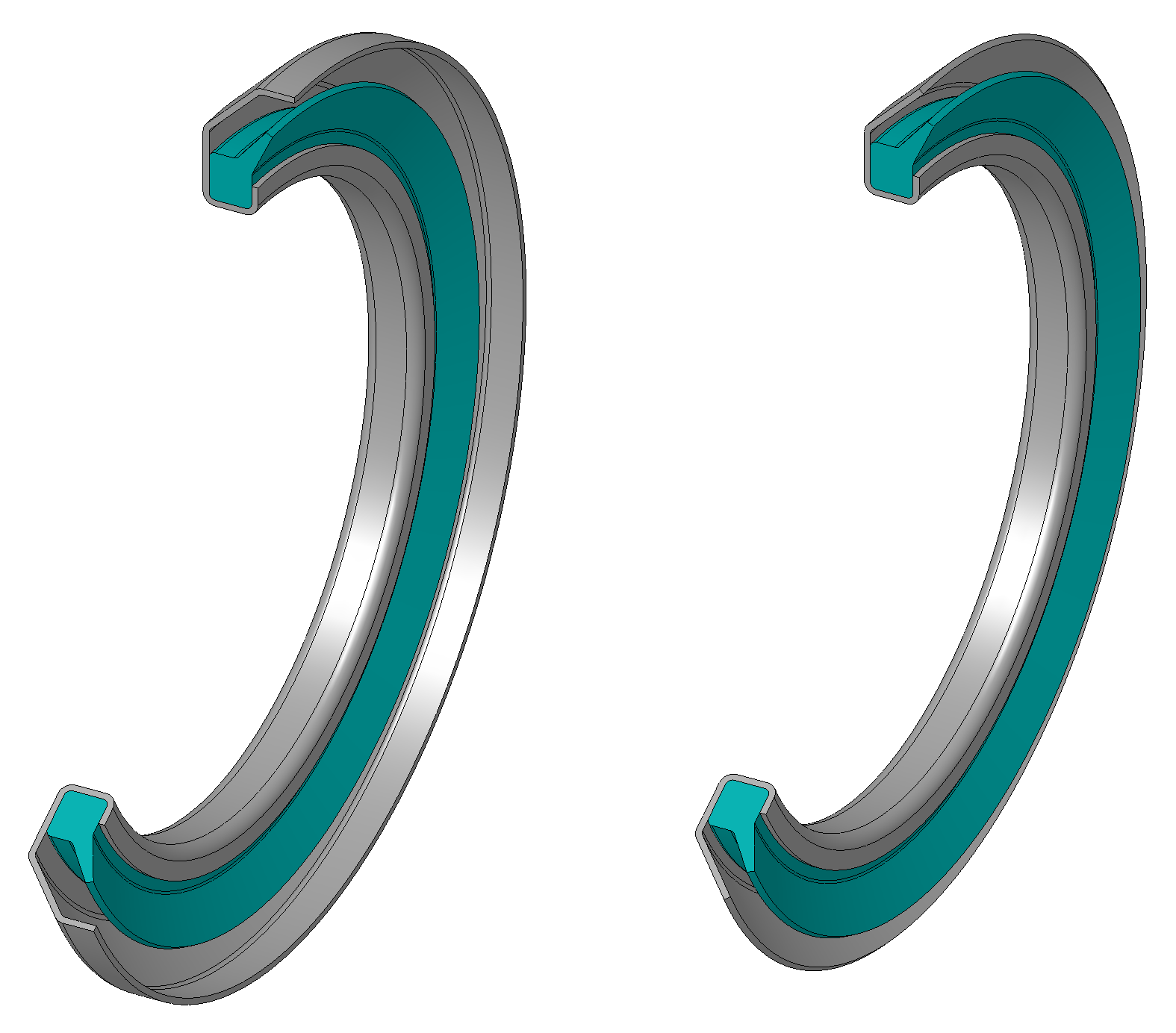 two gamma seals with sectional view. Left: type 9RB, right: type RB